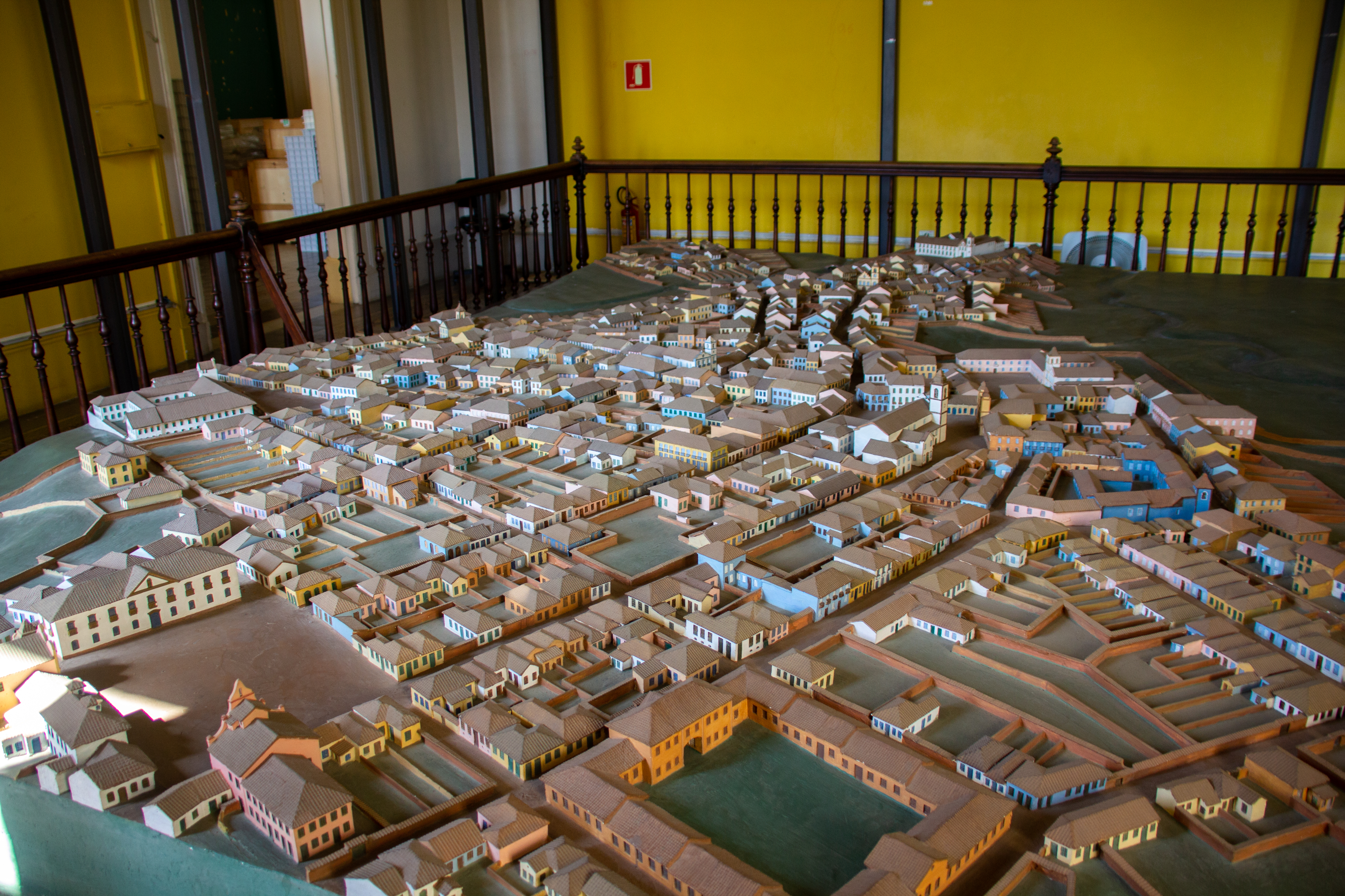 Model of old São Paulo, Museu do Ipiranga, Brazil